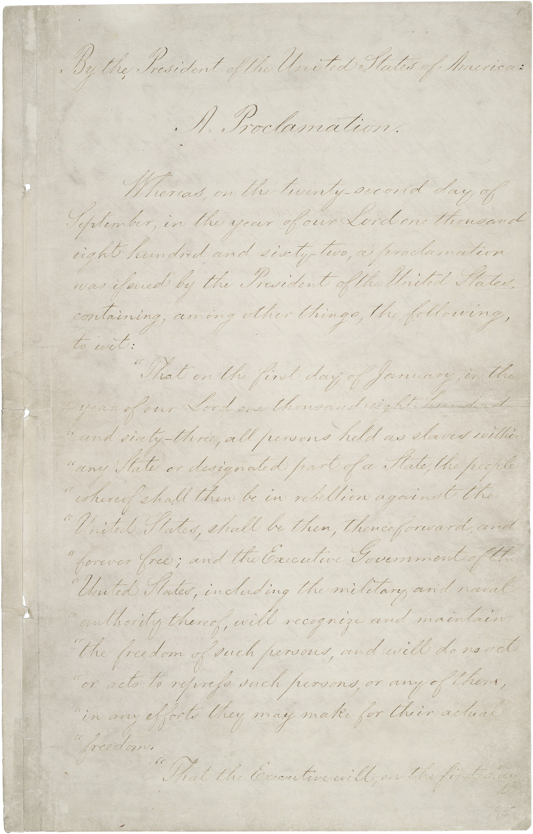 Page one of the Emancipation Proclamation.